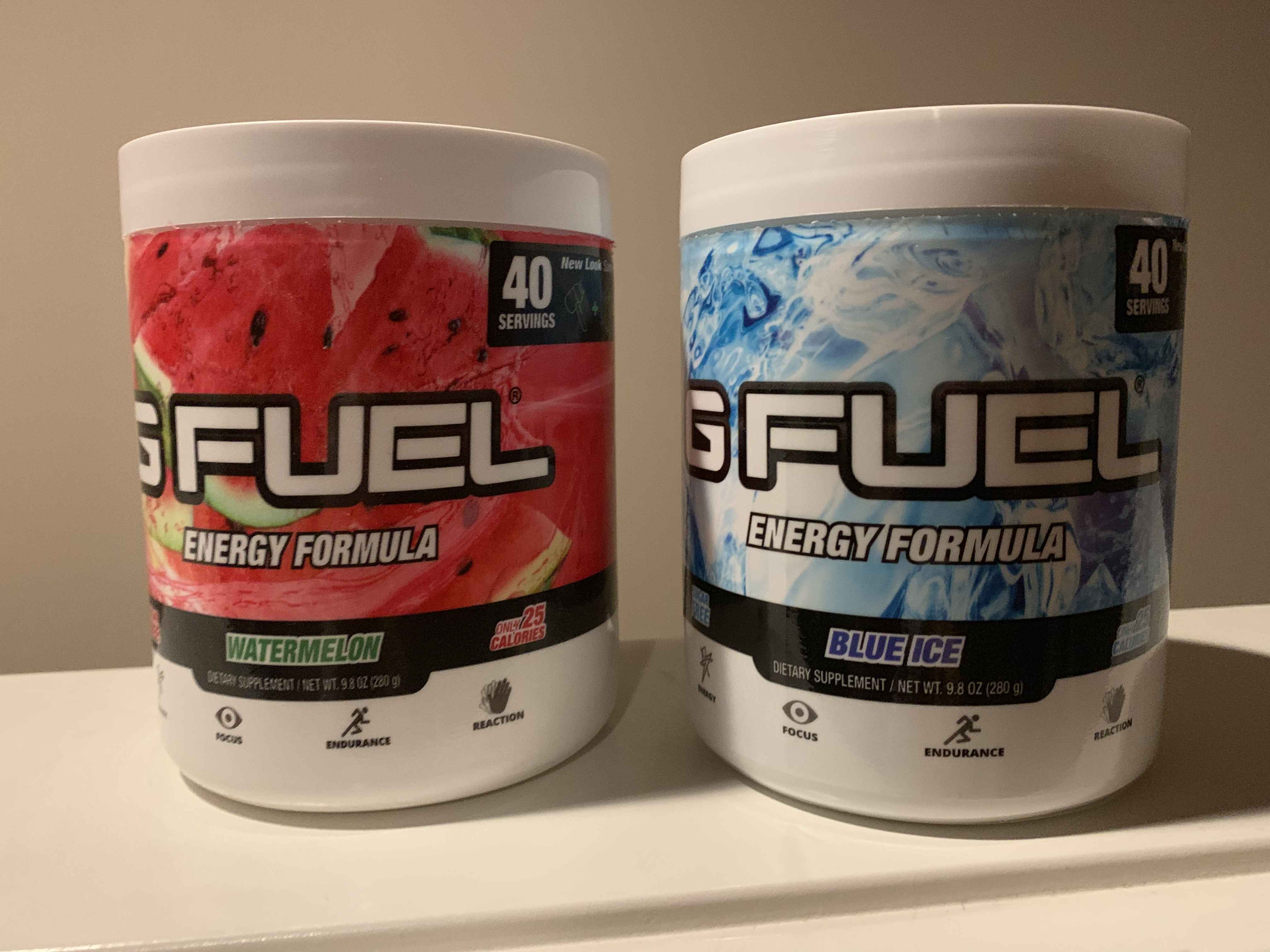 A tub of watermelon-flavored and a tub of blue ice-flavored G Fuel; an energy drink mix